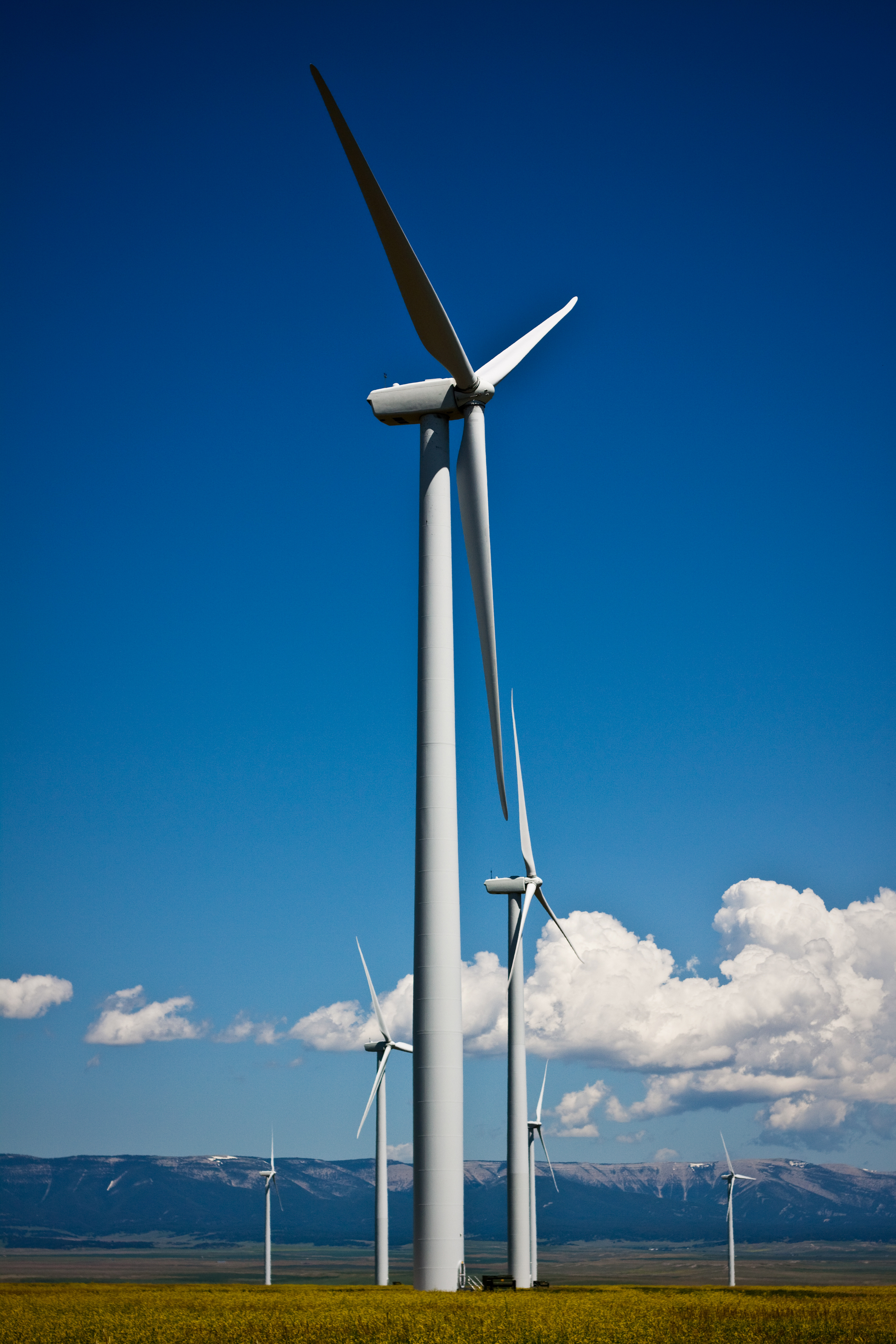 Wind turbines at the Judith Gap Wind Farm, just outside Judith Gap, Montana.